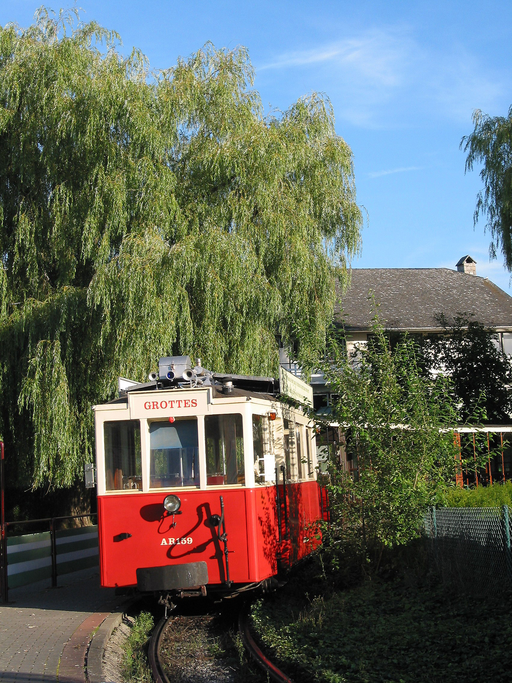 Han-sur-Lesse (Belgium), the tram of the caves.